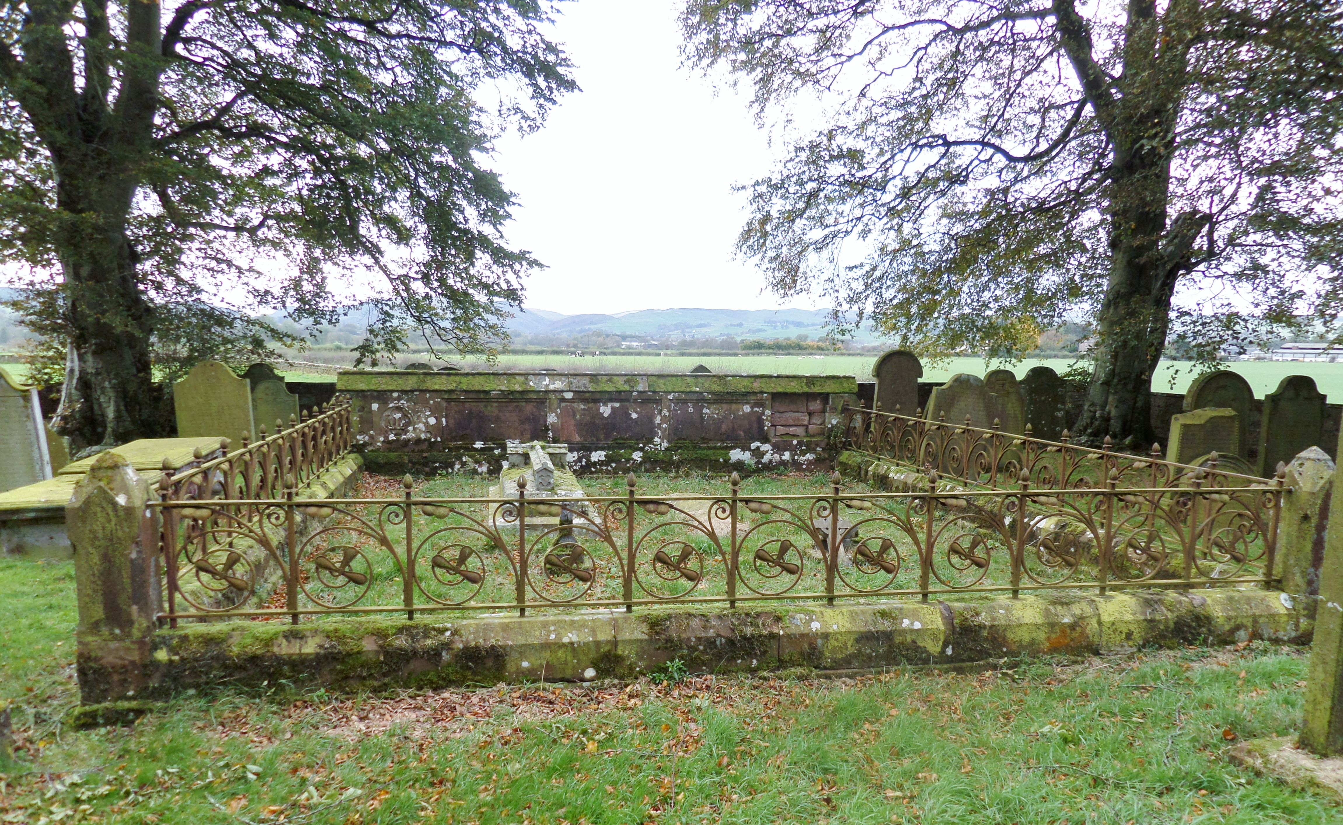 Menteth of Closeburn family burial ground, Dalgarnock, Dumfries & Galloway, Scotland. Previously 'Menteath'. They became baronets.